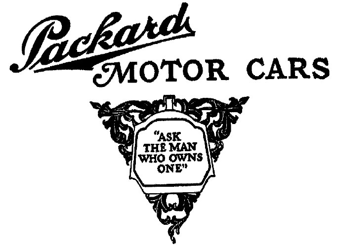 Packard logo